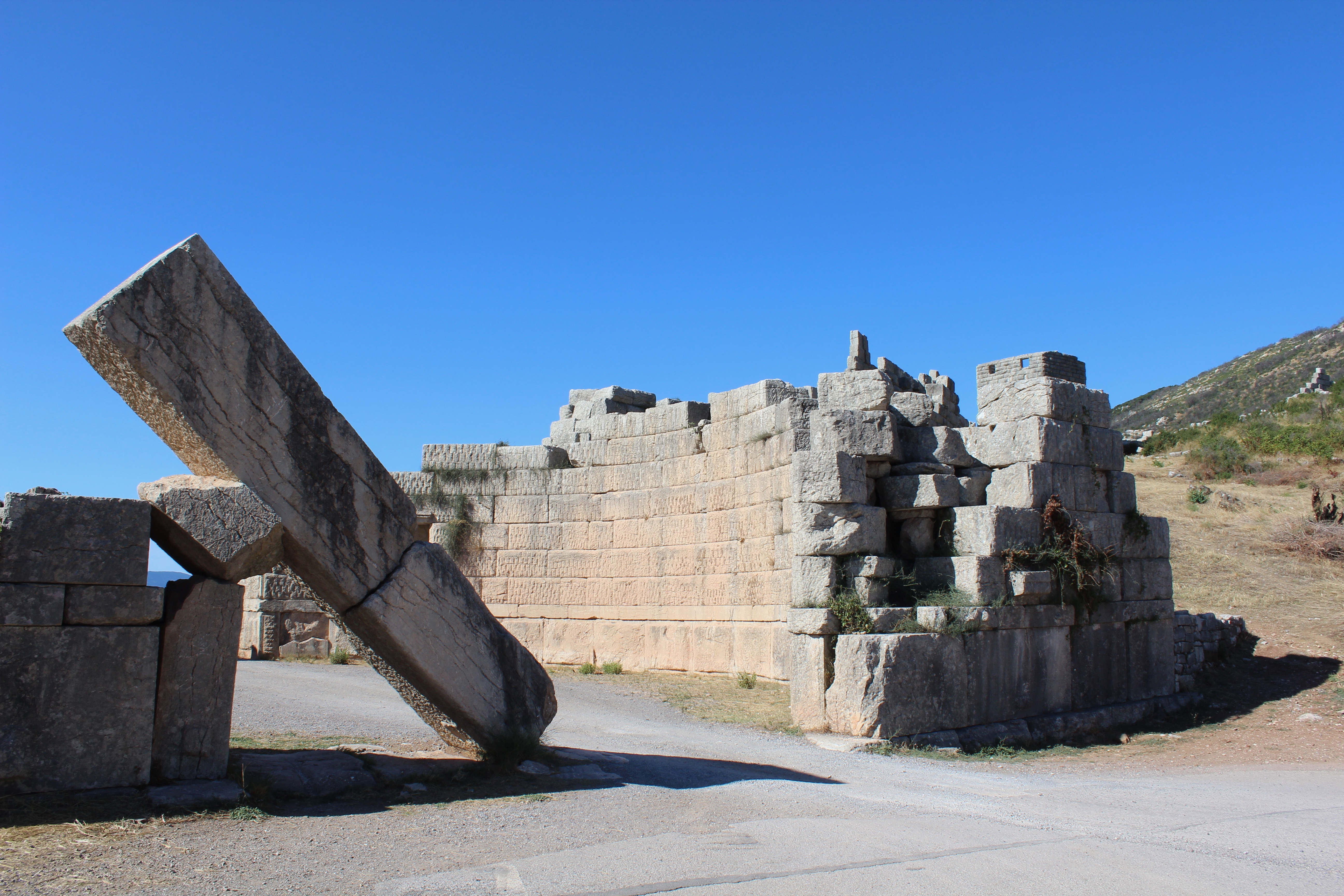 Arcadian Gate, Ancient Messene, Greece.«Αρχαία Μεσσήνη»